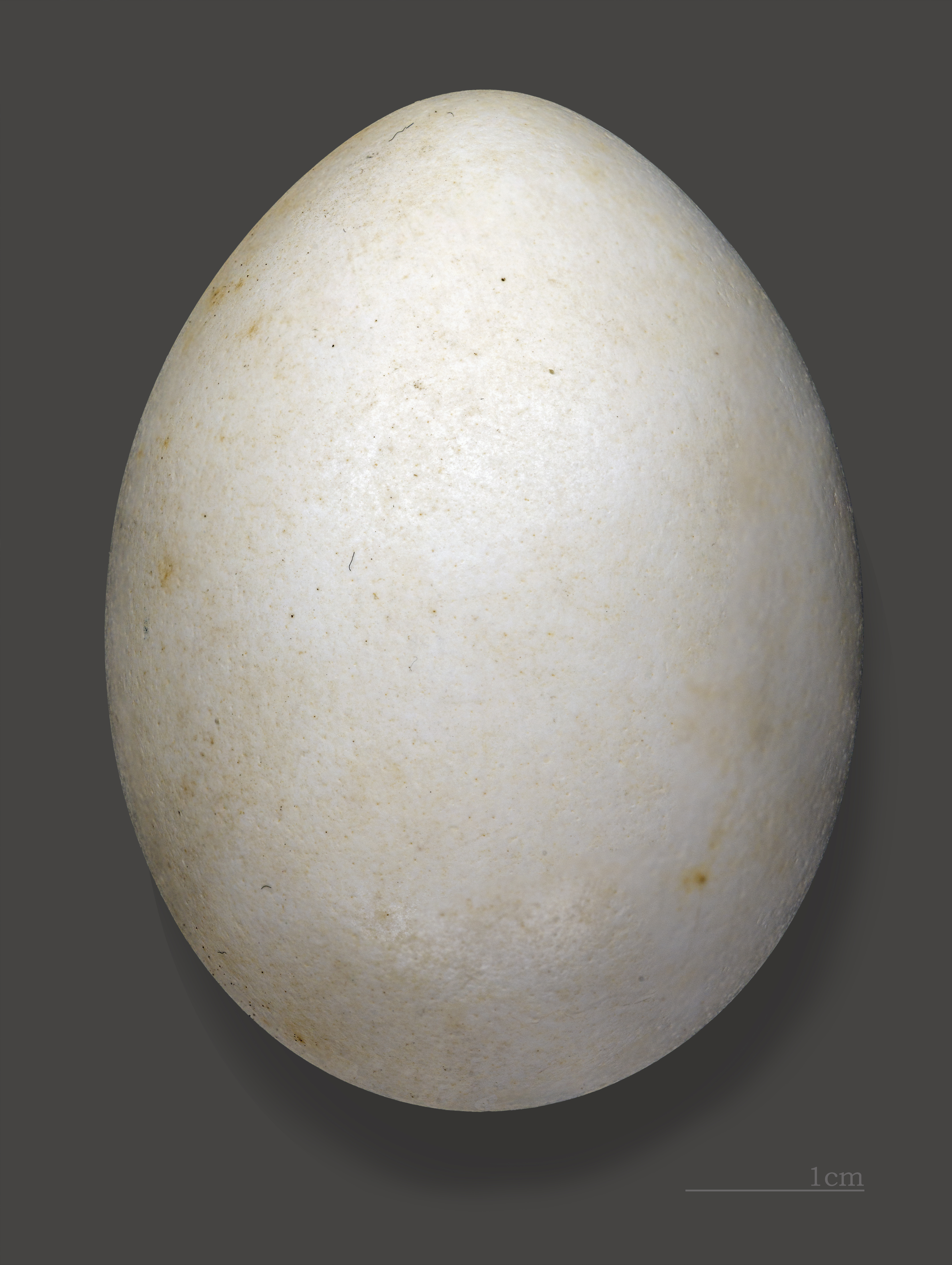 Egg of Manx shearwater. Collection of Jacques Perrin de Brichambaut.